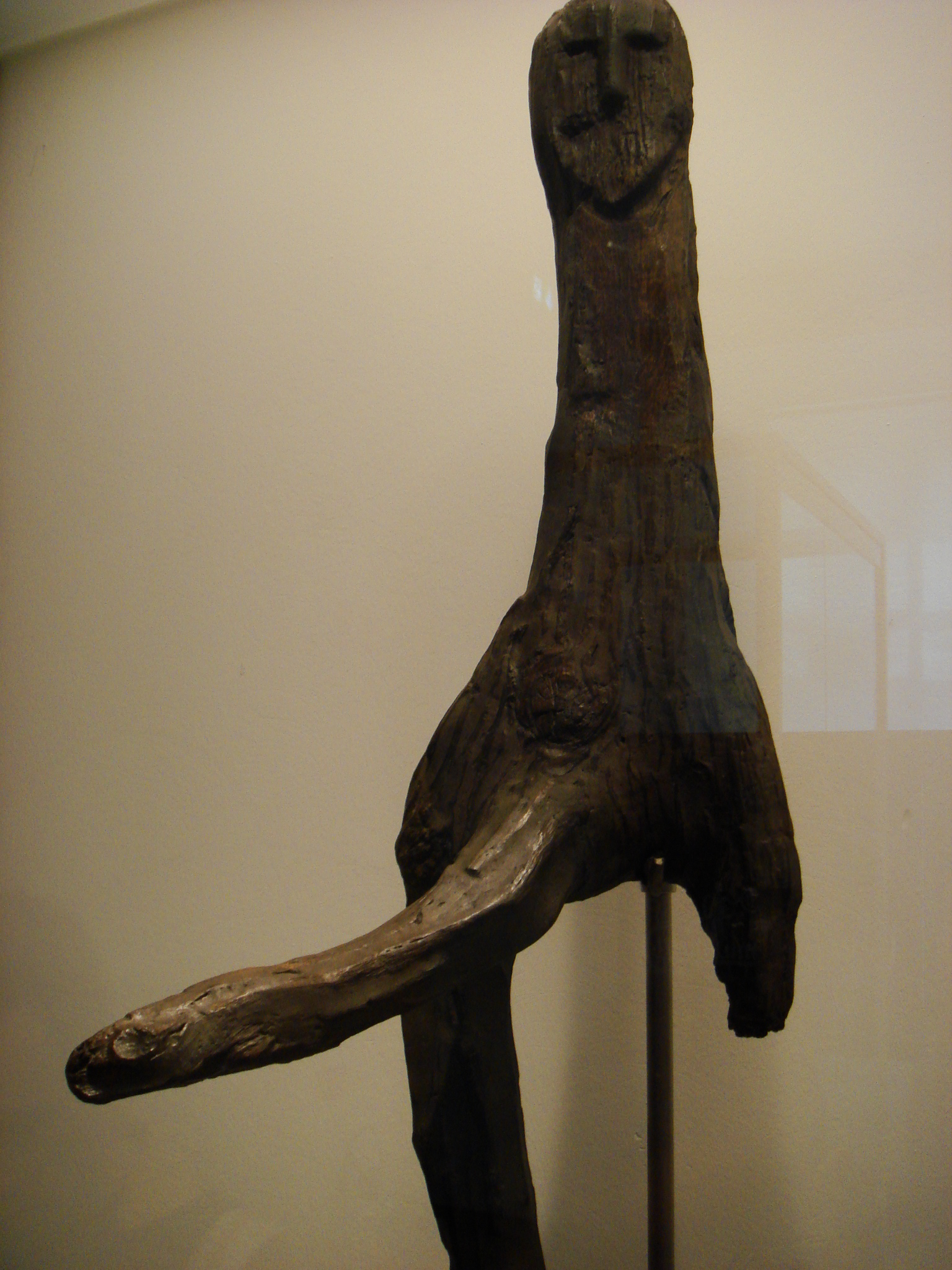 Male figure of oak, found in Broddenbjerg bog near Viborg Denmark. At display at Danish National Museum, Copenhagen. Around 600 B.C. Picture by Stefano Bolognini.